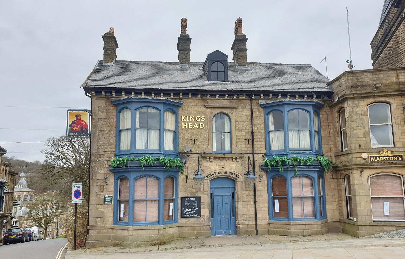 Kings Head at Buxton